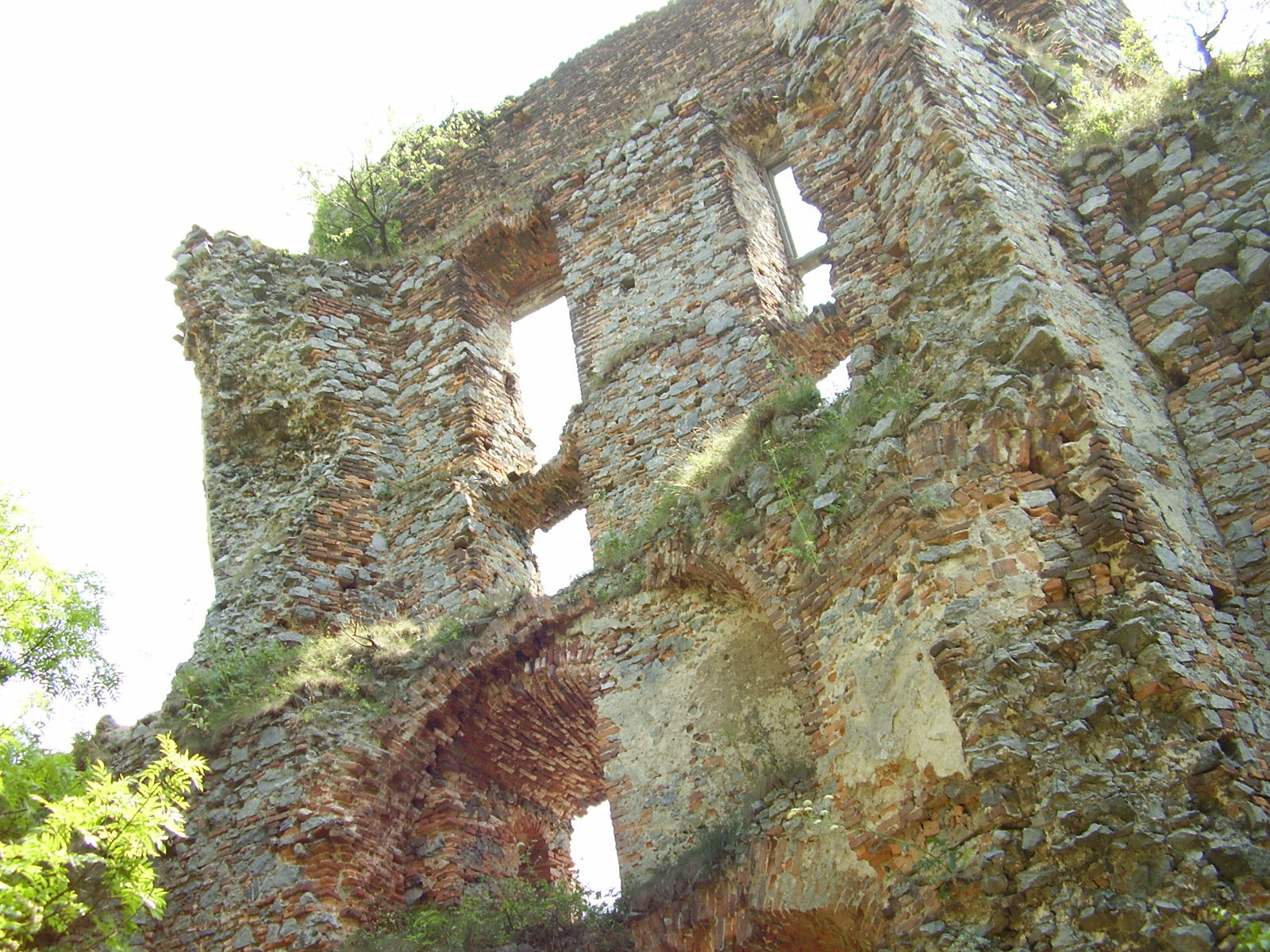 Slovakia, ruins of the Pajstun castle, a wall above the main gate - sight from inside of the bailey This medium shows the protected monument with the number 106-388/1 (other) in the Slovak Republic.